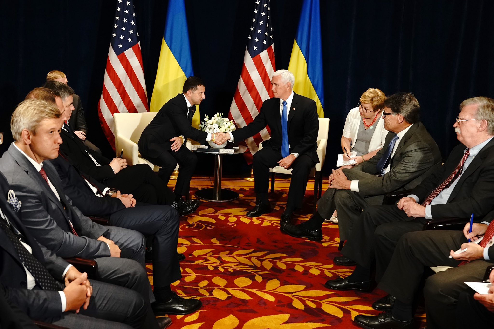 Great meeting with President Zelensky of Ukraine today to discuss security, energy, economic growth and progress of his reform agenda. Under the leadership of President Donald Trump, the relationship between Ukraine & the US has never been stronger!